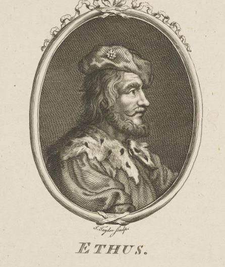 Ethus, Scottish king.